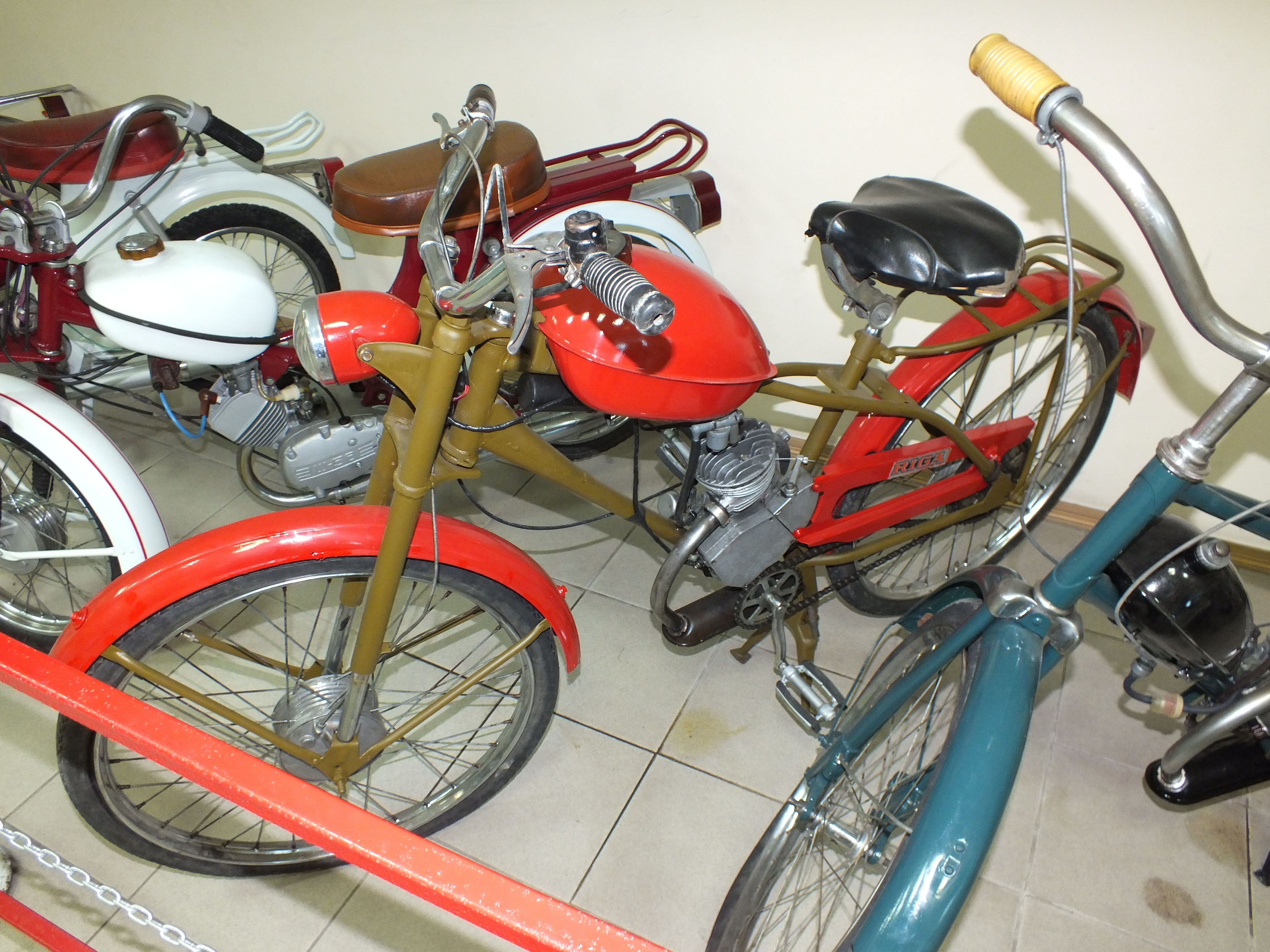 Motorcycles of Russia